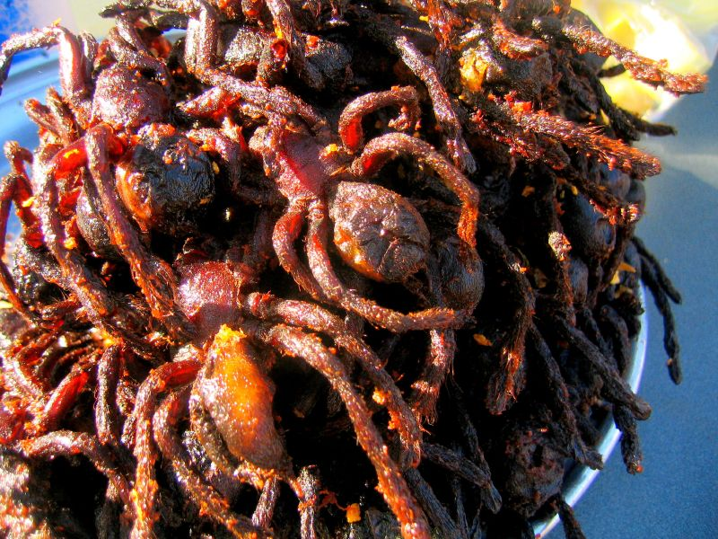 Close up of crunchy fried spiders from Skun town, Cheung Prey district, Kampong Cham Province, Cambodia